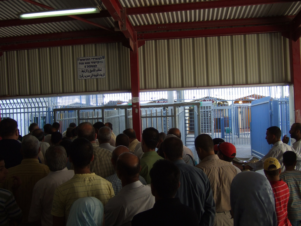 The wall. Qalandiya crossing point (between Ramallah and Jerusalem).